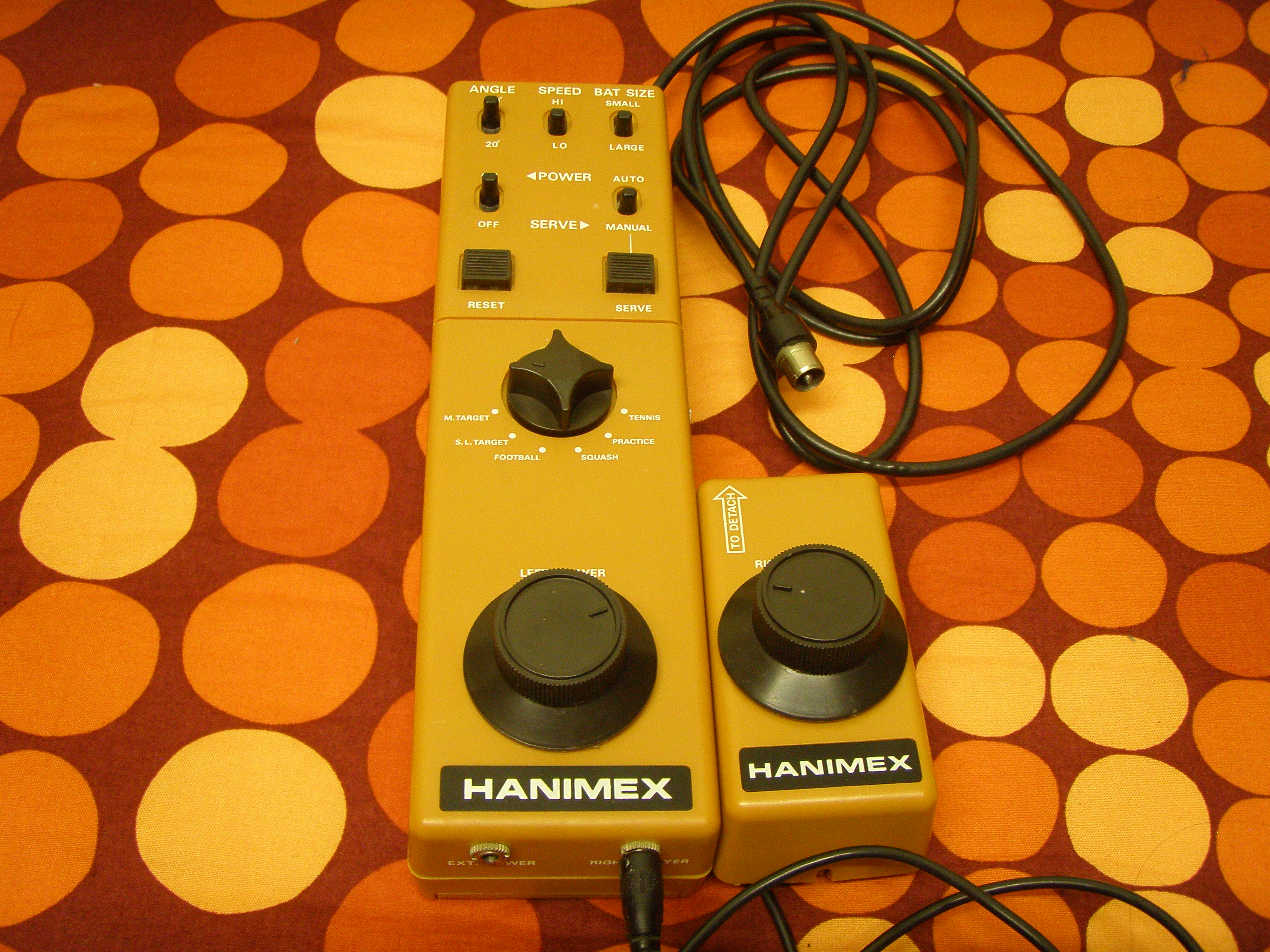 Hanimex 677CP Colour TV Game. Done with OLYMPUS DIGITAL CAMERA